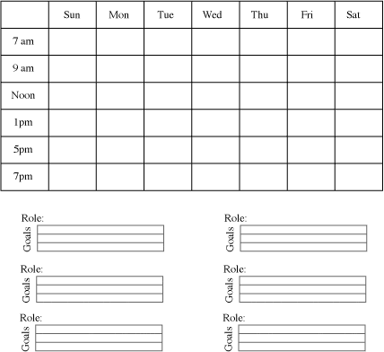 Weekly worksheet as described in Merrill, Merrill and Covey's 1994 book "First Things First" for identifying key goals for each role during the week so that important things can be planned before the schedule is completely filled with things that are not important on the theory that one should place "the big rocks first."